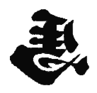 image of the backwards 馬 uma shoji piece